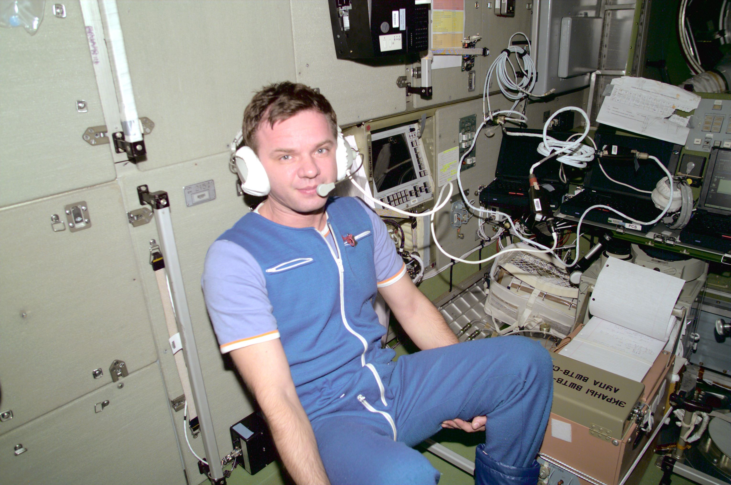 Cosmonaut Yuri P. Gidzenko, Soyuz commander for Expedition One, communicates with ground controllers onboard the Zvezda Service Module, one of the components of the Earth-orbiting Internation Space Station (ISS).